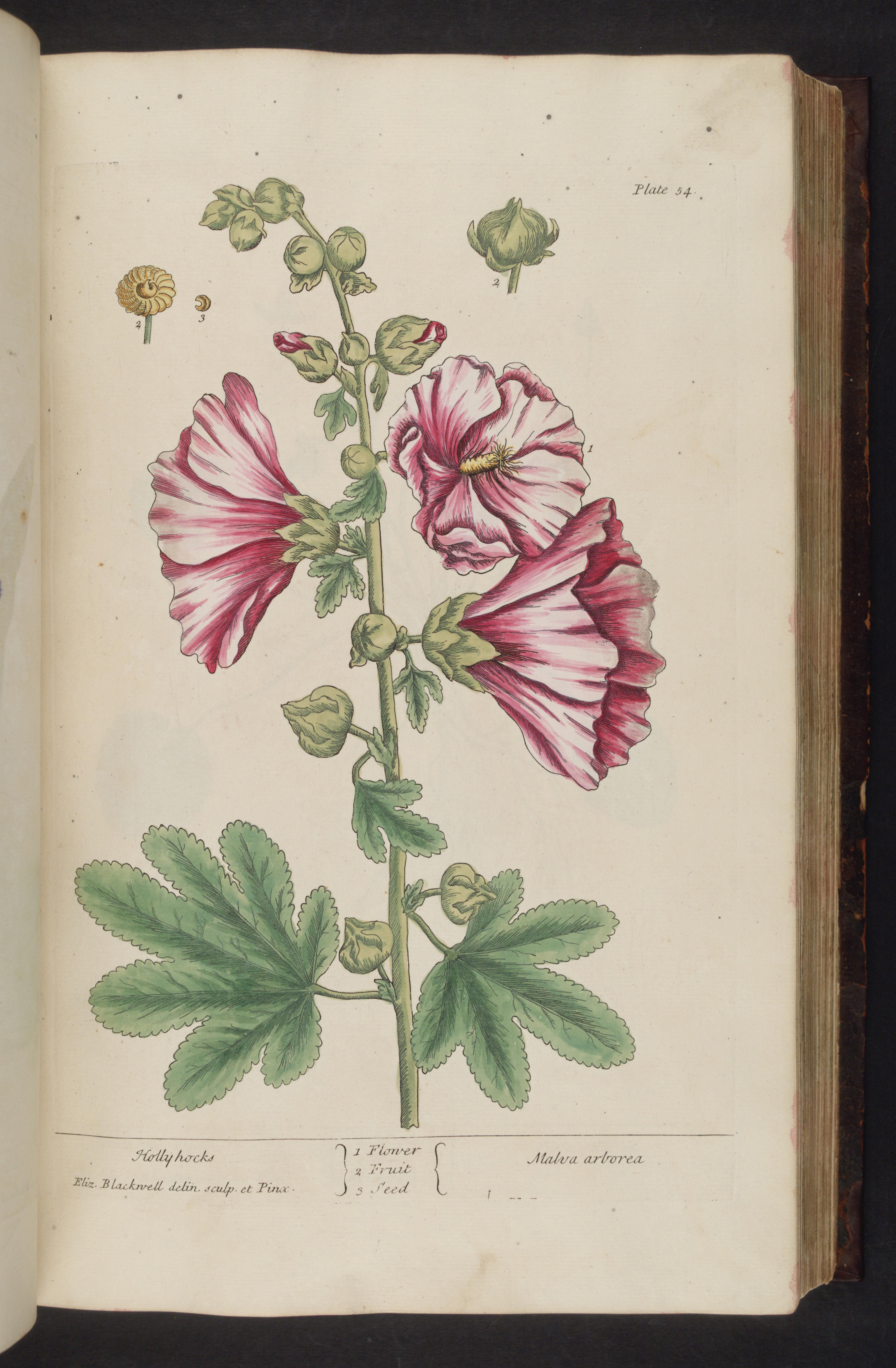 A curious herbal :containing five hundred cuts, of the most useful plants, which are now used in the practice of physick engraved on folio copper plates, after drawings taken from the life /by Elizabeth Blackwell. To which is added a short description of ye plants and their common uses in physick.